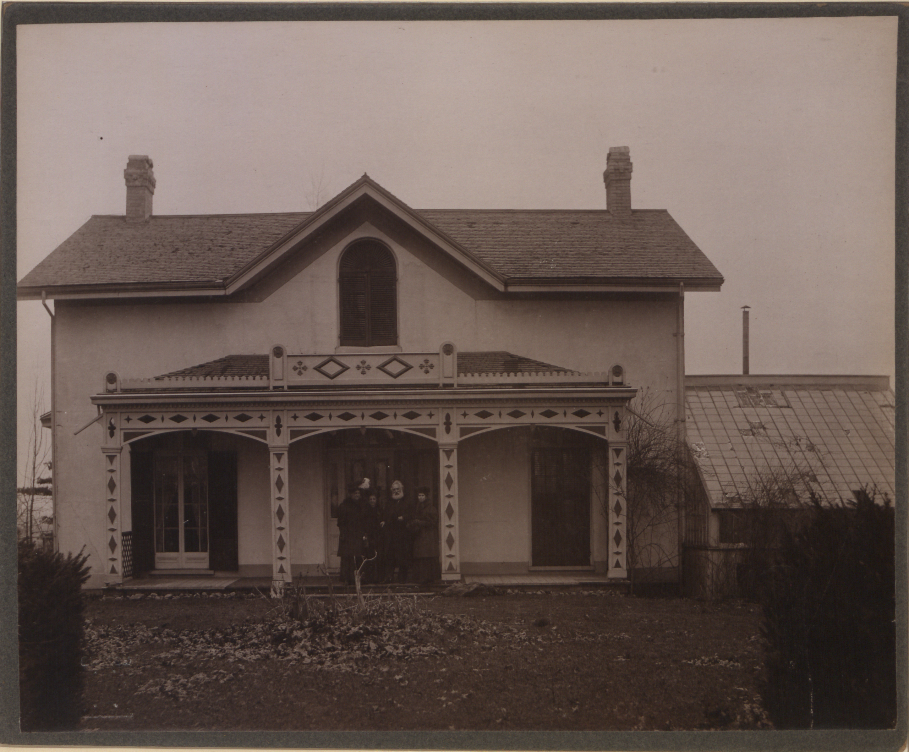 Dr. Bell and party at the home of the telephone.